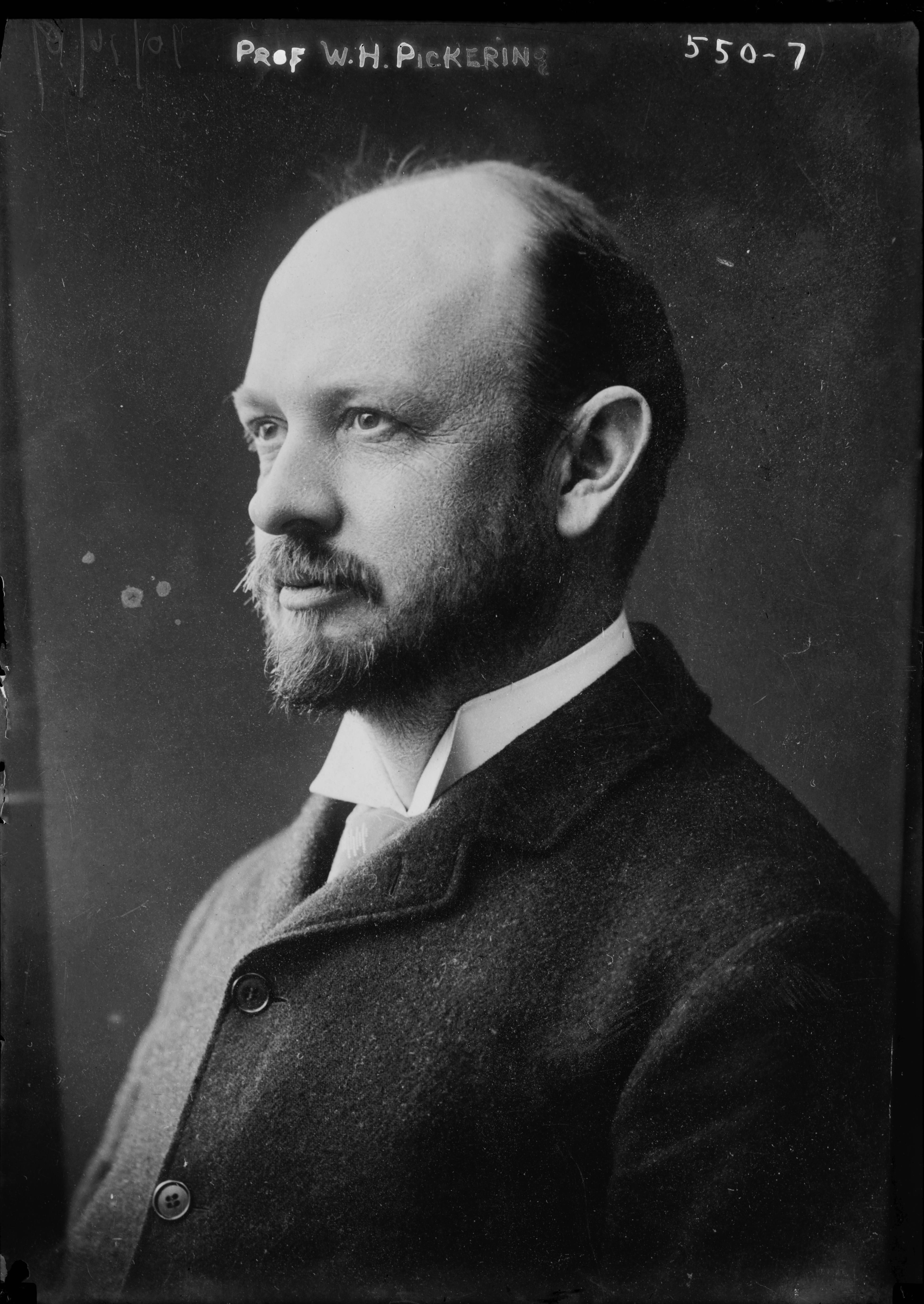 The image represents the American astronomer William Henry Pickering (1858 - 1938)